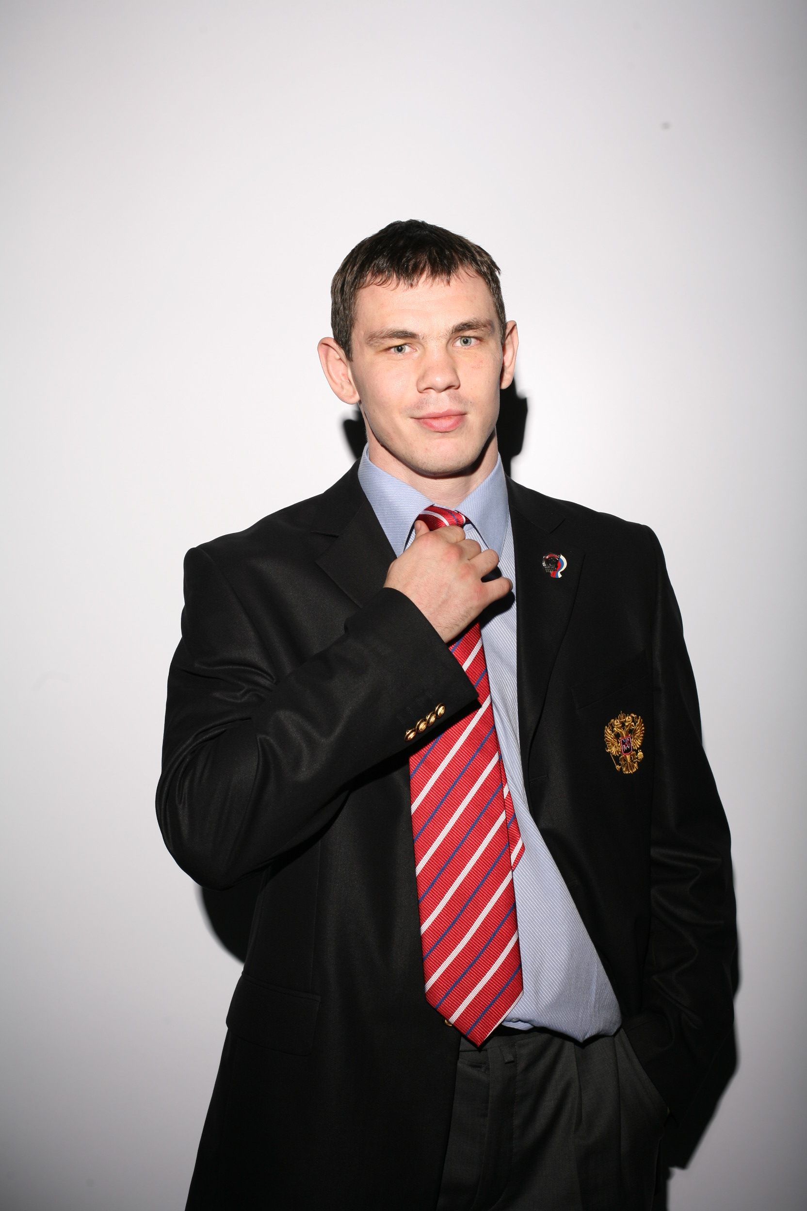 Yegor Mekhontsev.